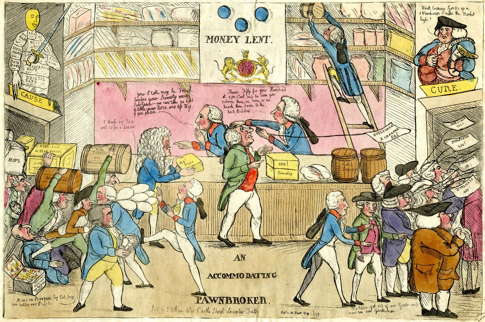 Political satire: the interior of a pawnbroker where a crowd presses in to exchange their goods for paper money. May 1793 Etching with hand-colouring